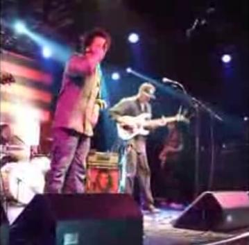 Street Sweeper Social Club performing during a Nightwatchman gig in Novemember 2008